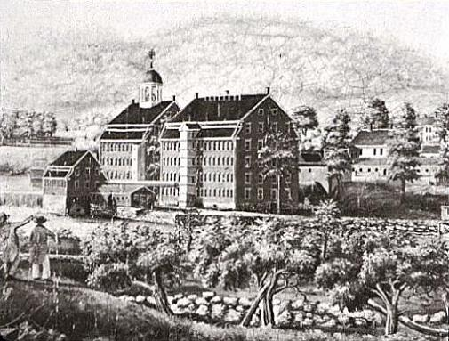 Boston Manufacturing Company, 1813-1816, Waltham, Massachusetts.